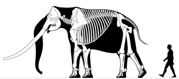 Stegodon S. zdansky Yellow river sex male age +50 humerus 1210 femur 1460 size group – pelvis 2000 387 cm • 12.7 t All the skeletal restorations are presented on the same scale (1/100). The human figure is 180 cm tall. Mass estimates are in kilograms for small proboscideans and in tonnes for the larger forms. Shoulder heights are in cm. The age (years), sex, size group, femur and humerus greatest length (mm) (in the case of * it refers to the humerus articular length in mm) and pelvis breadth (mm) are included.